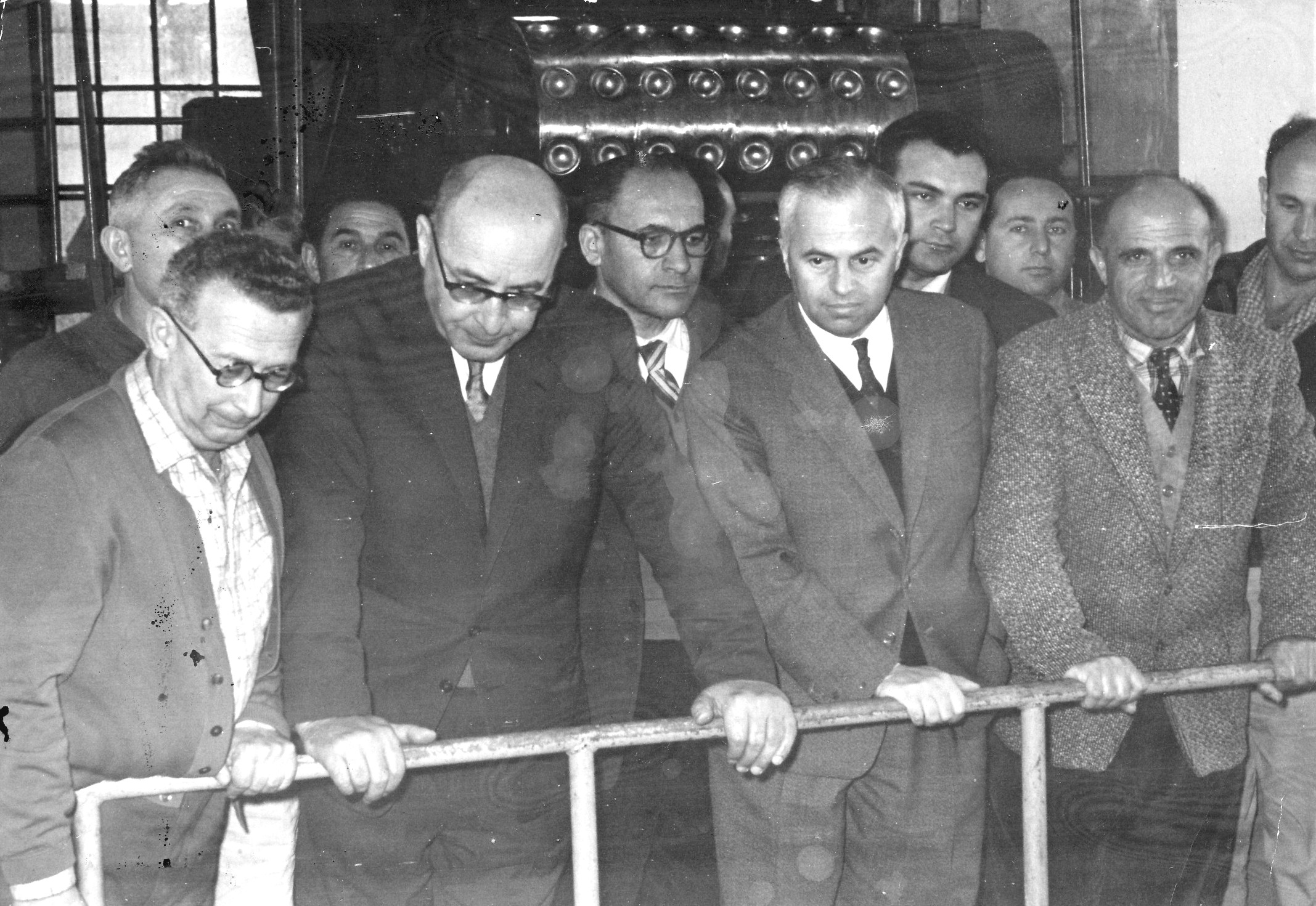 Gan-Shmuel sb9- 18, Econimy of Israel